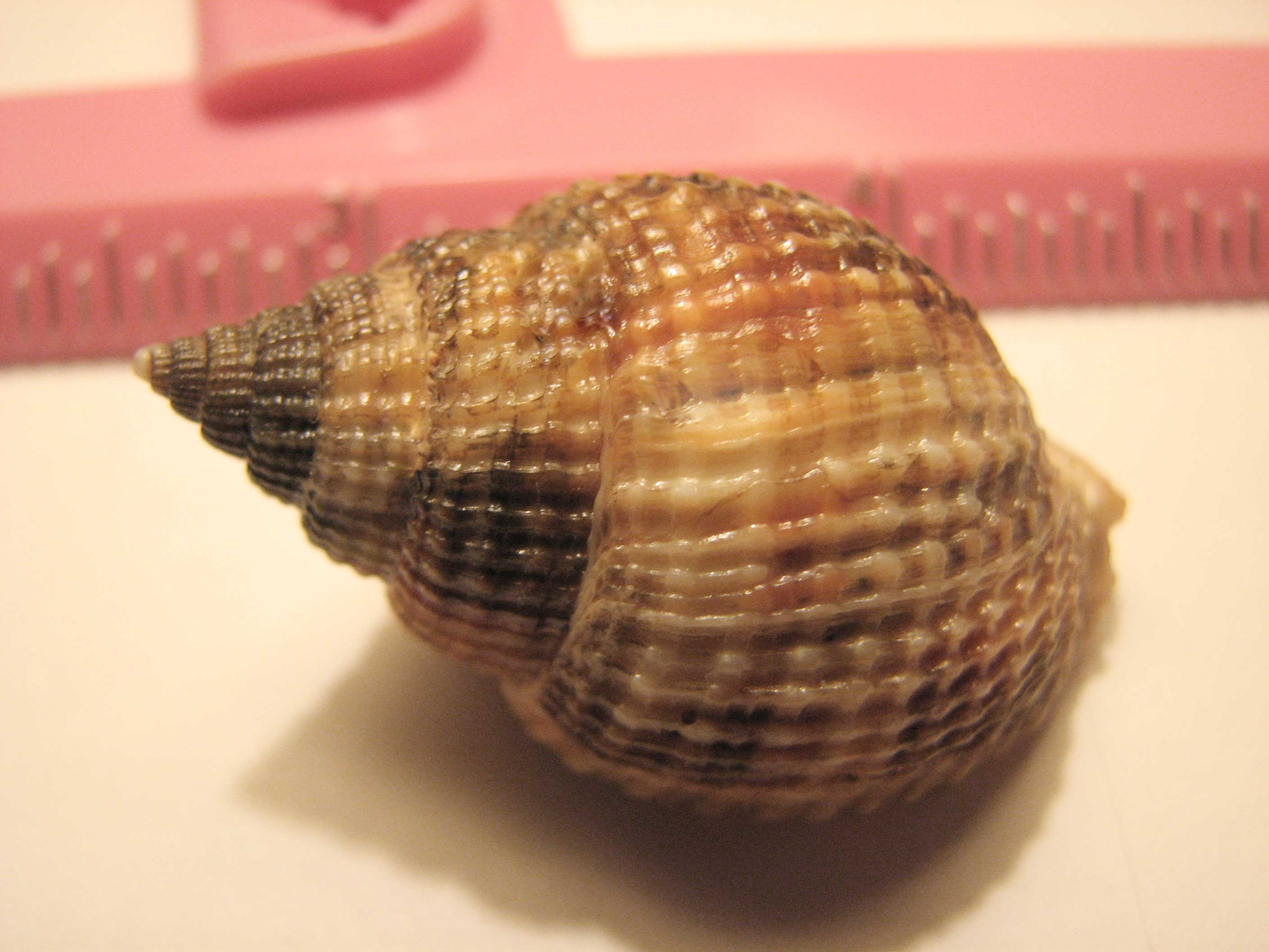 Common Nutmeg, Cancellaria reticulata, Common Nutmeg by Sharon Mooney, 2006